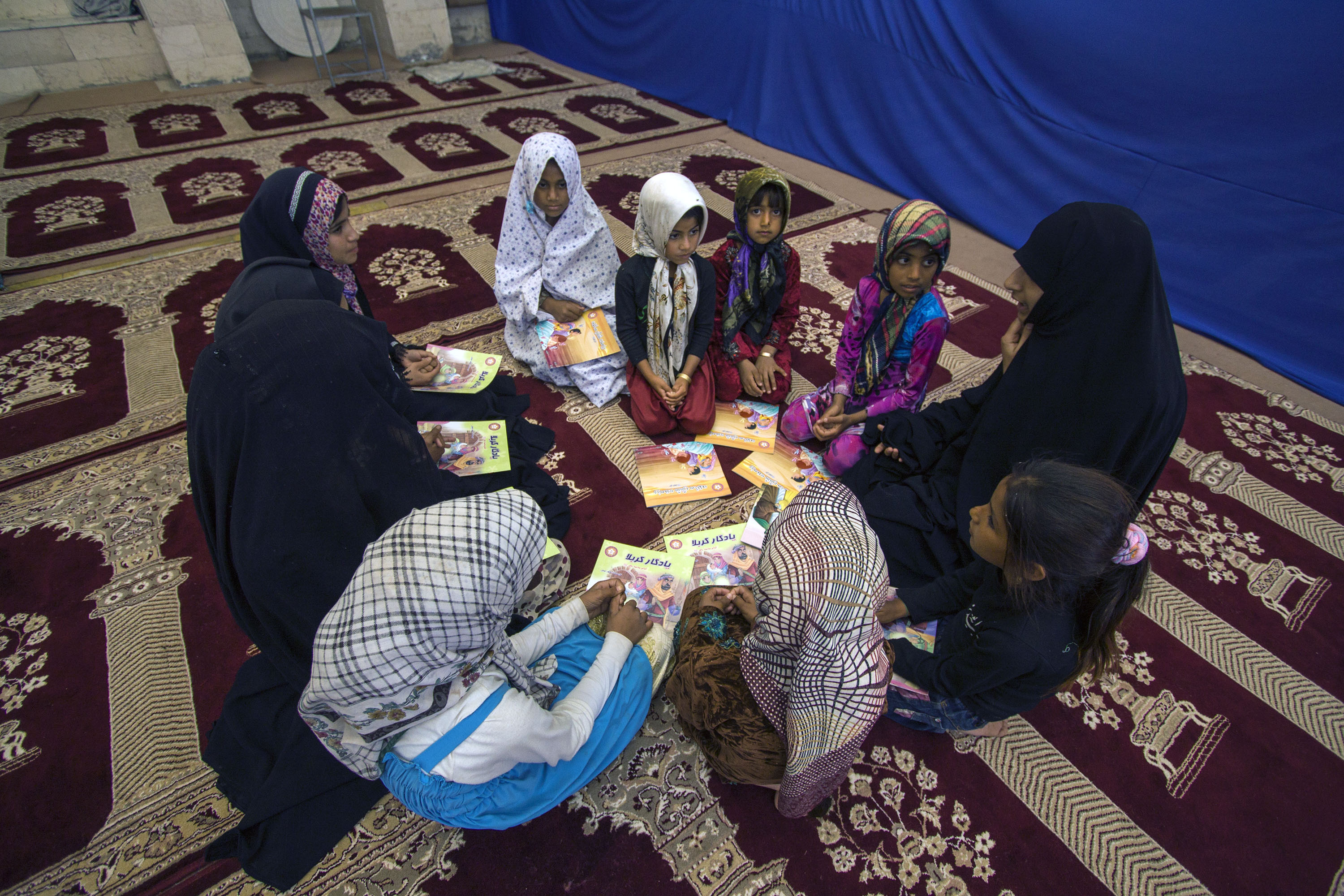 Biologically, a child (plural: children) is a human being between the stages of birth and puberty.